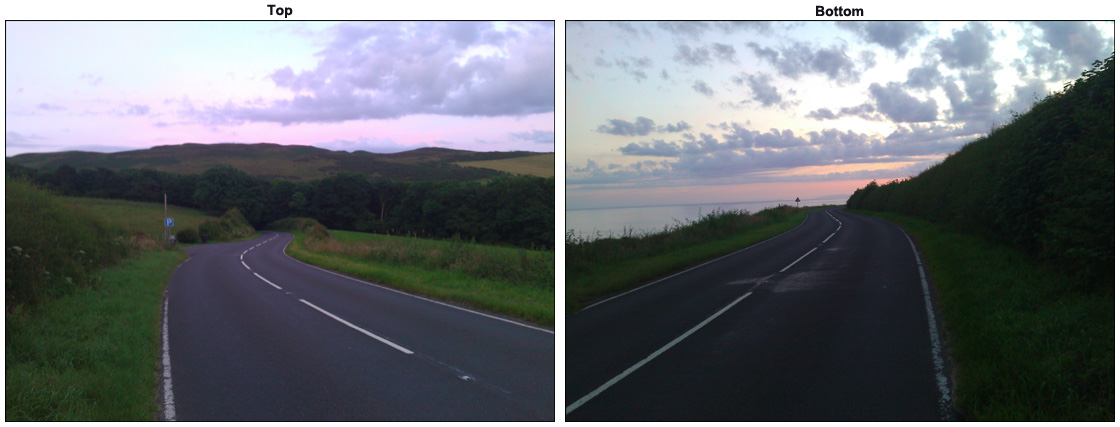 Shows both the top and bottom of the Electric Brae as separate stills